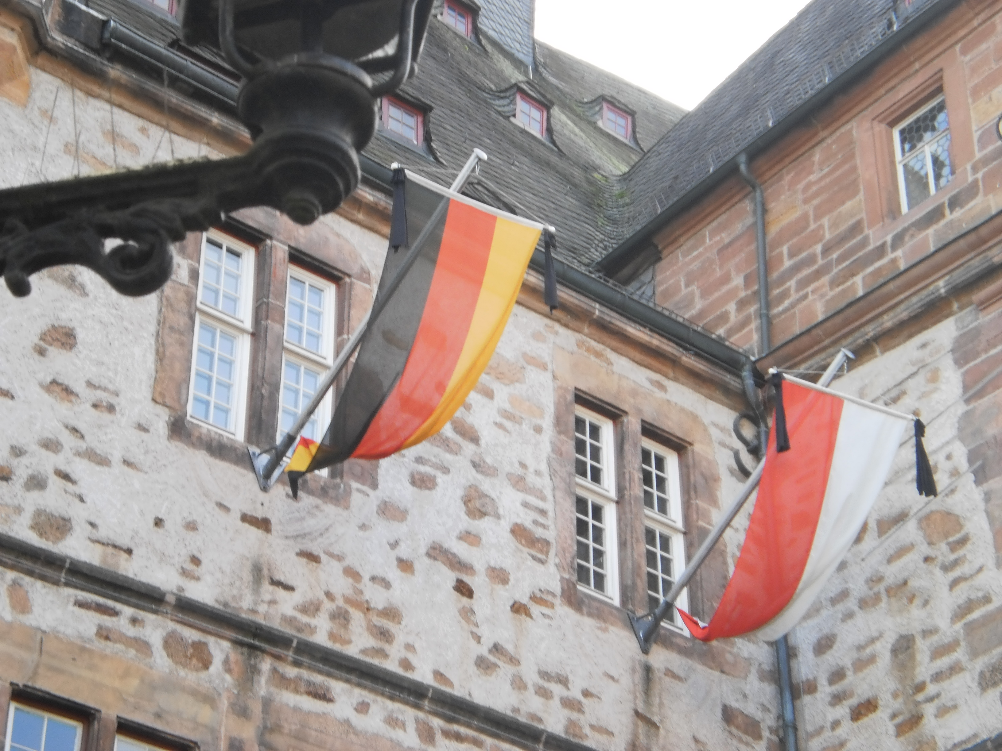 Mourning flags of Germany and Hesse on November 19, 2017 (Volkstrauertag) in the federal republic of Germany), town hall Marburg.